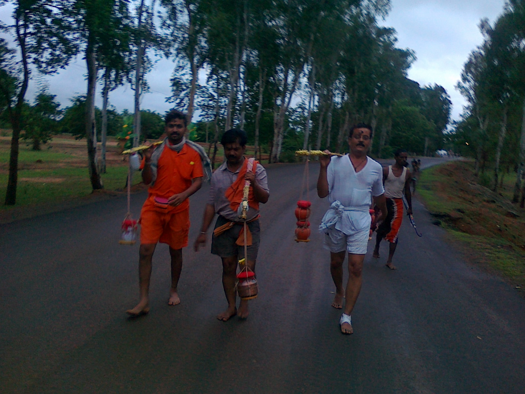 Bol Bam : Basukinath Dhaam, Jharkhand, India